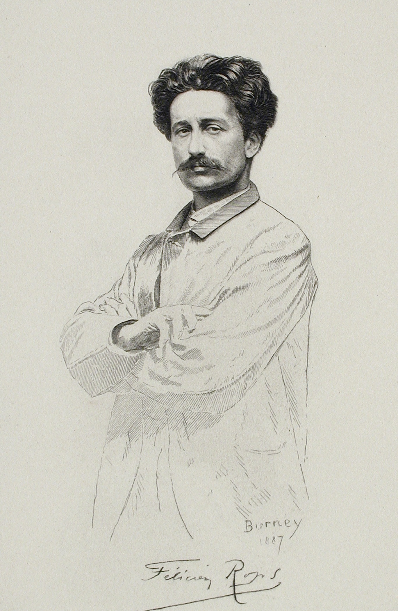 Belgium, 1887 Prints; engravings Engraving Gift of Michael G. Wilson (M.84.243.343) Prints and Drawings